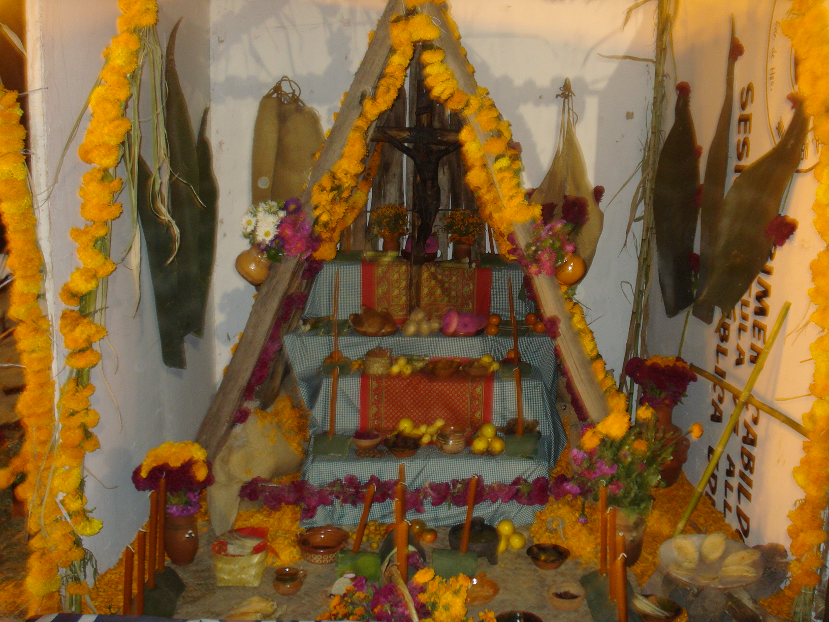 It was an offering in a contest of offerings realized every day of the dead on Tula de Allende, Hgo. México